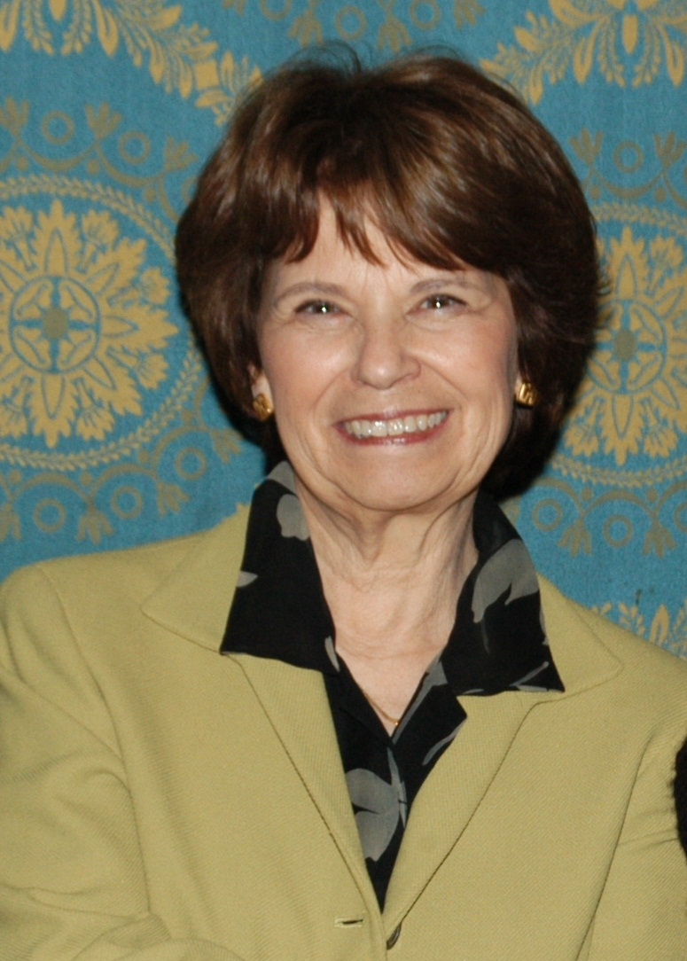 Photograph of Dr. Barbara Lethem Ibrahim